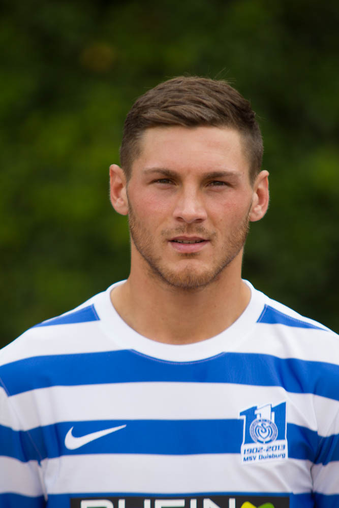 German football player Michael Gardawski, MSV Duisburg